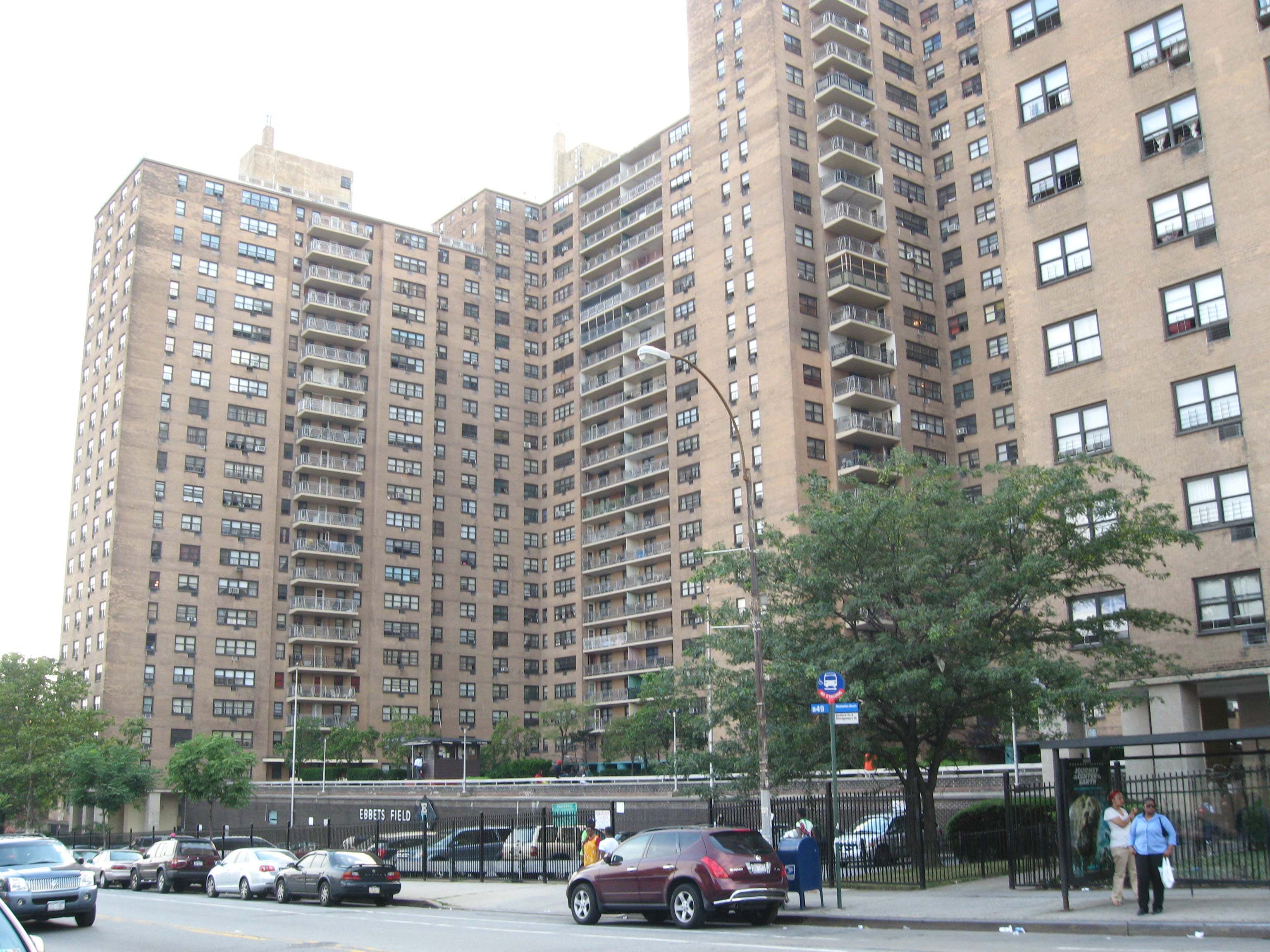 Looking southwest across Bedford Avenue at Ebbets Field Apartments on a mostly sunny afternoon